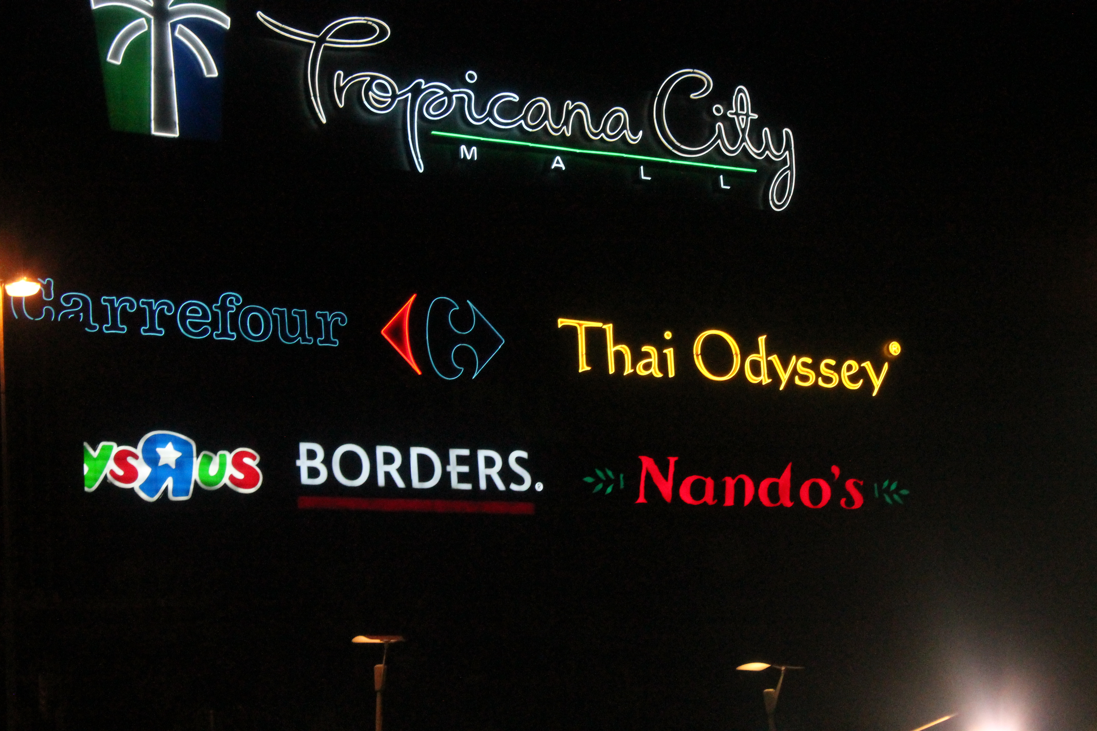 The night piece of the Tropicana City Mall, Petaling Jaya, Selangor, Malaysia.